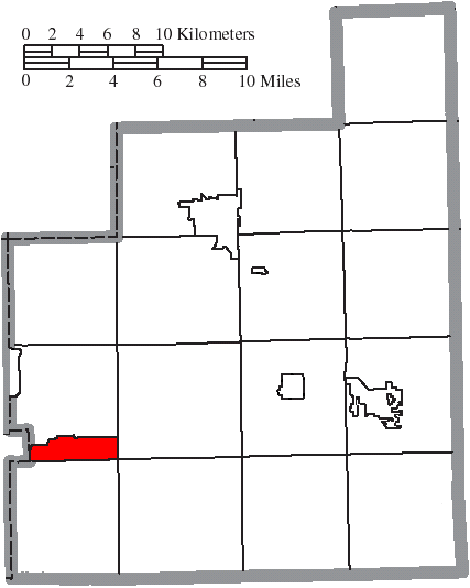 Map of the municipal and township boundaries of Geauga County, Ohio, United States, as of the 2000 census, with the location of the village of South Russell highlighted. Township borders are shown only in unincorporated areas in order to differentiate incorporated and unincorporated areas more clearly.